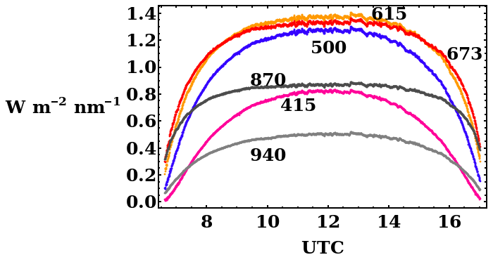 Direct solar radiation, at indicated wavelength in nanometers, as measured at Niamey, Niger 24 December 2006 with MFRSR instument. From public domain ARM data. Date 26 is incorrect in image name.